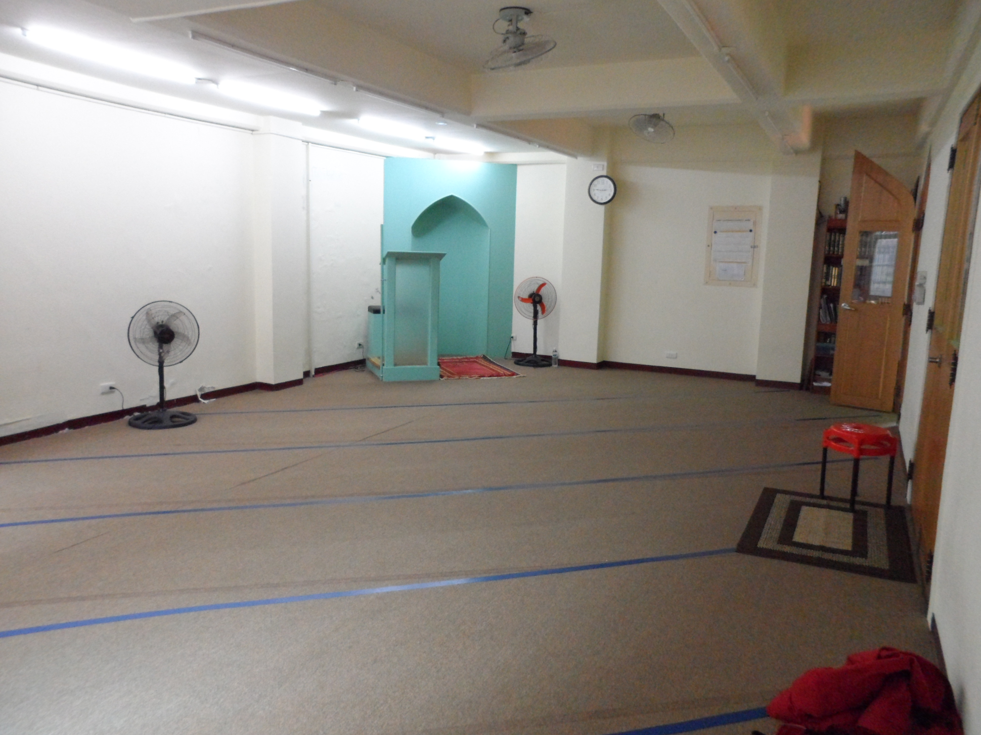 Taipei Cultural Mosque Prayer Hall, Zhongzheng District, Taipei City, Taiwan